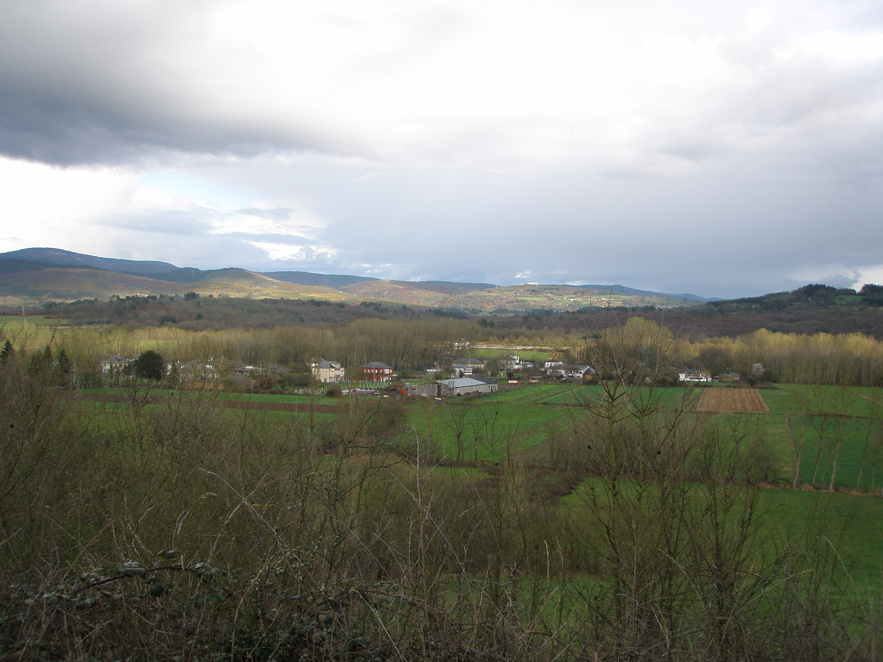 View of Santalla de Rei (A Pobra do Brollón, Lugo)